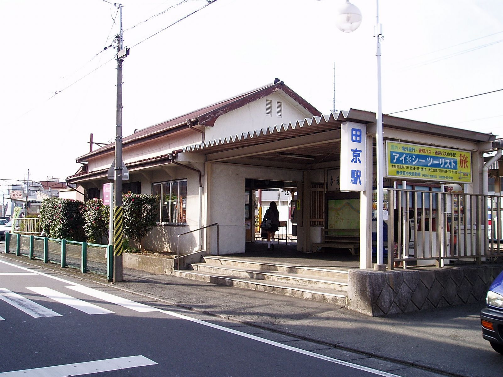 Isuhakone Railway Company, Takyo Sta. 2007.11.26 Photo by Cassiopeia_sweet.